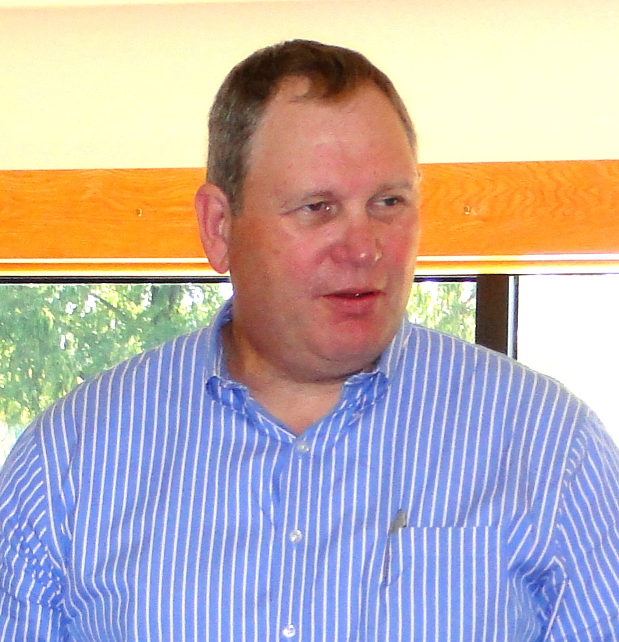 Photograph of Mark Donahue